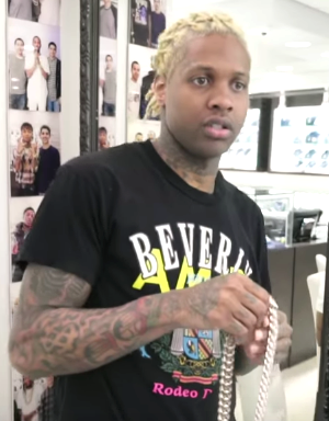 Lil Durk at Icebox in 2019